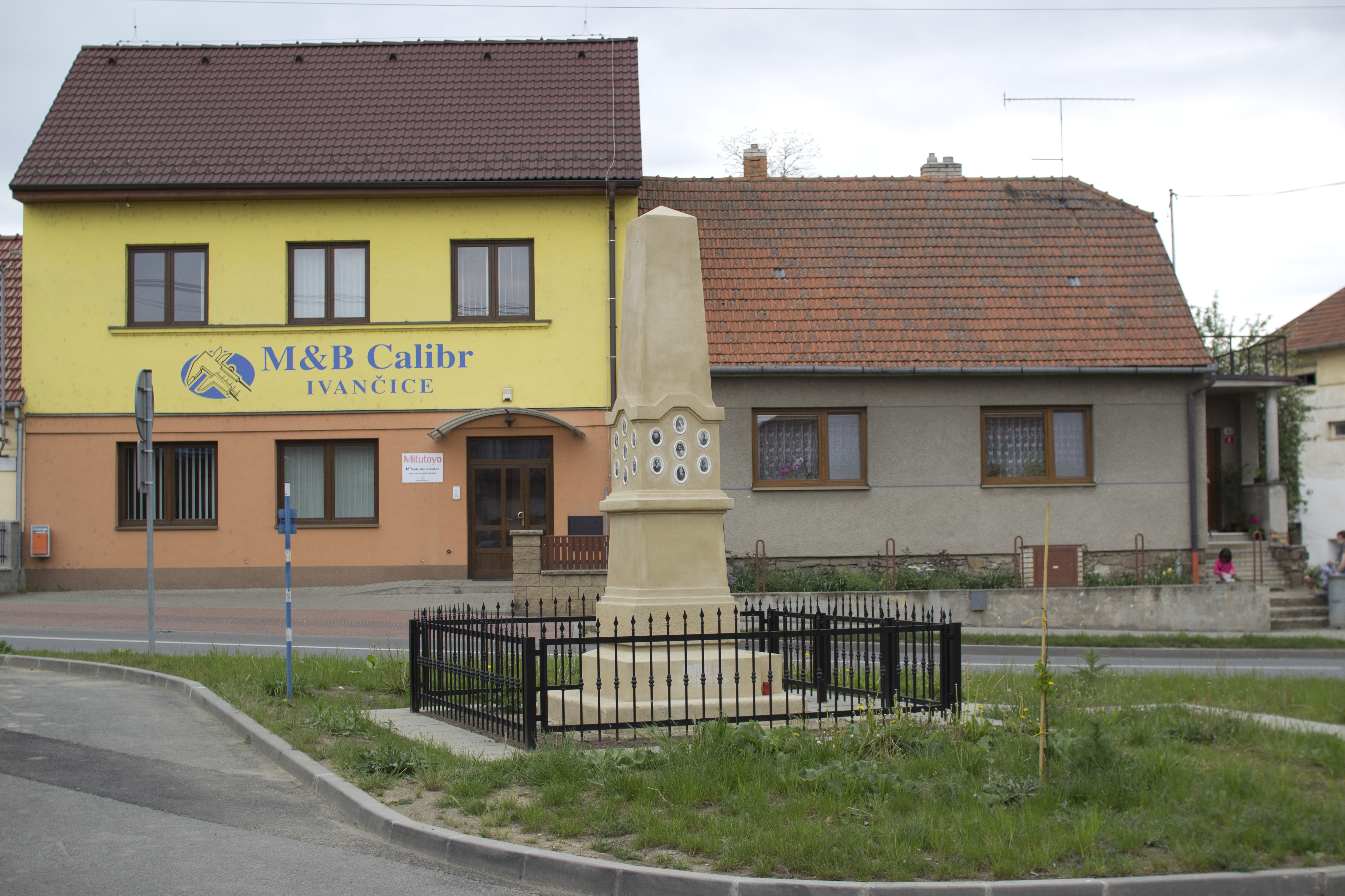 Němčice, Ivančice, Brno-Country District, South Moravian Region, Czech Republic